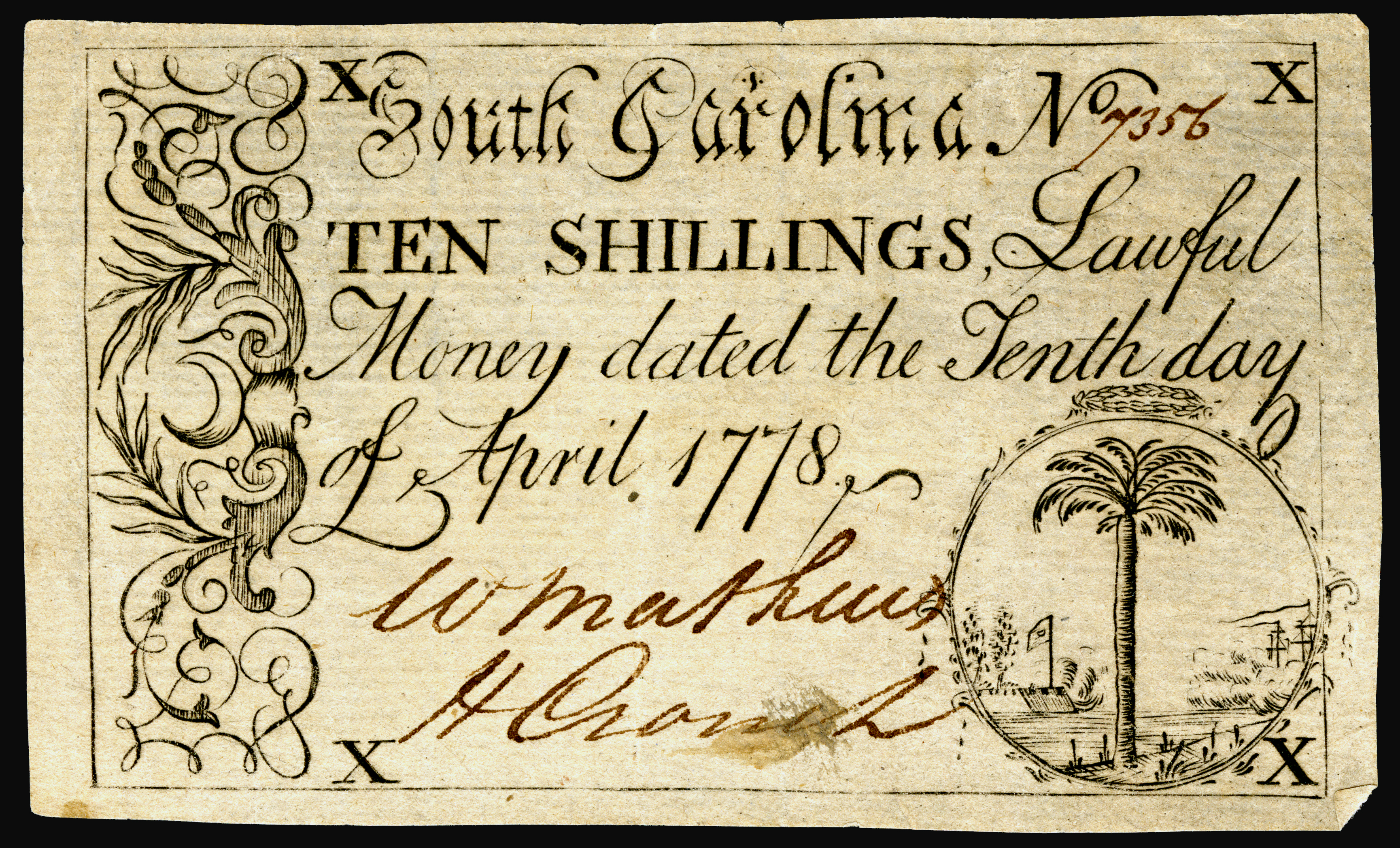 15s Colonial currency from South Carolina. Signed by William Mathewes and Henry Crouch.(Friedberg Colonial ref# SC-149).